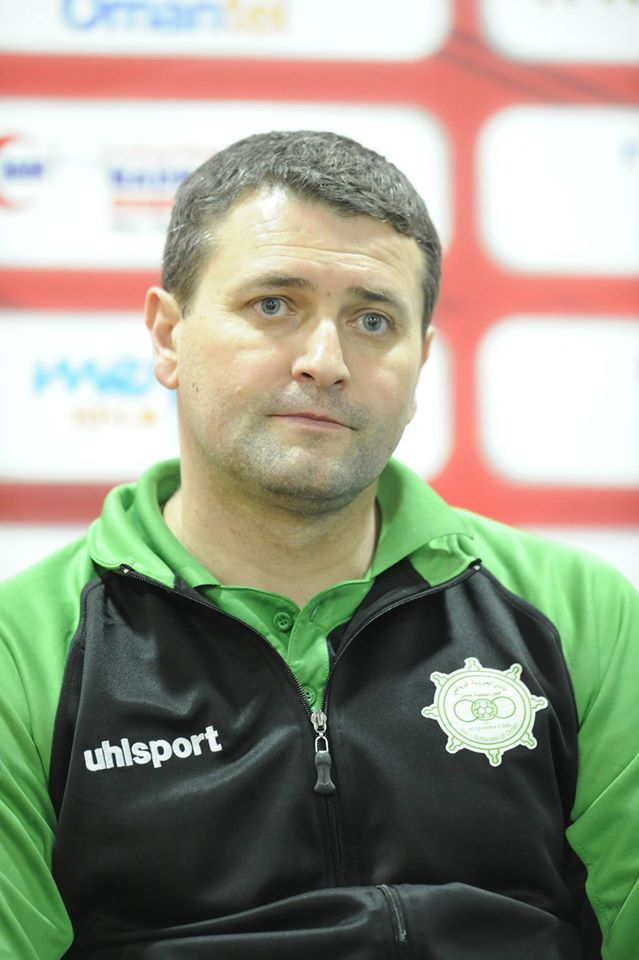 Aristică Cioabă in a press conference for Al Oruba Club of Oman after a match against Al Seeb Club. 13 September 2013 Al Seeb Stadium Photographer email id